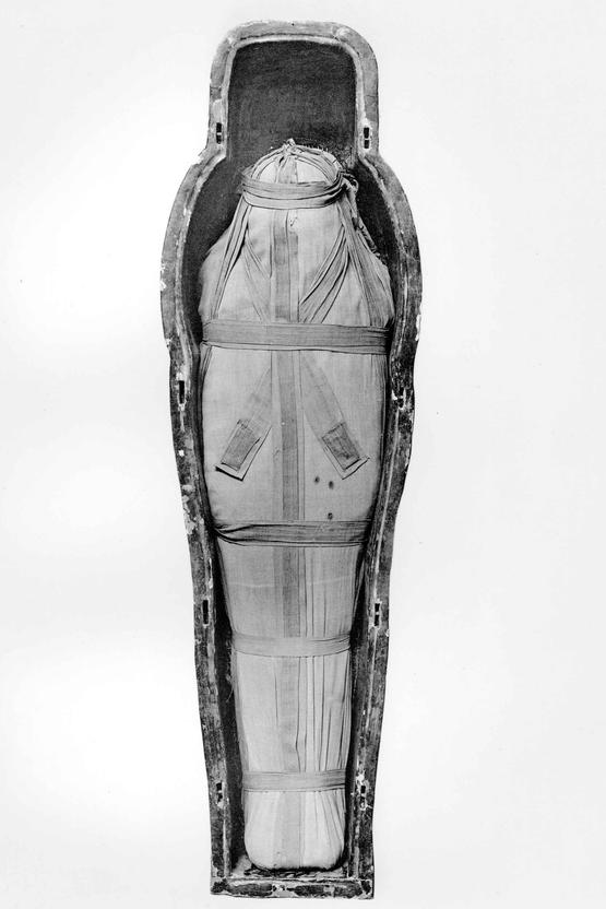 Wrapped mummy of Isetemkheb D, wife of the High Priest of Amun Pinedjem II during the 21st dynasty, found in DB320.